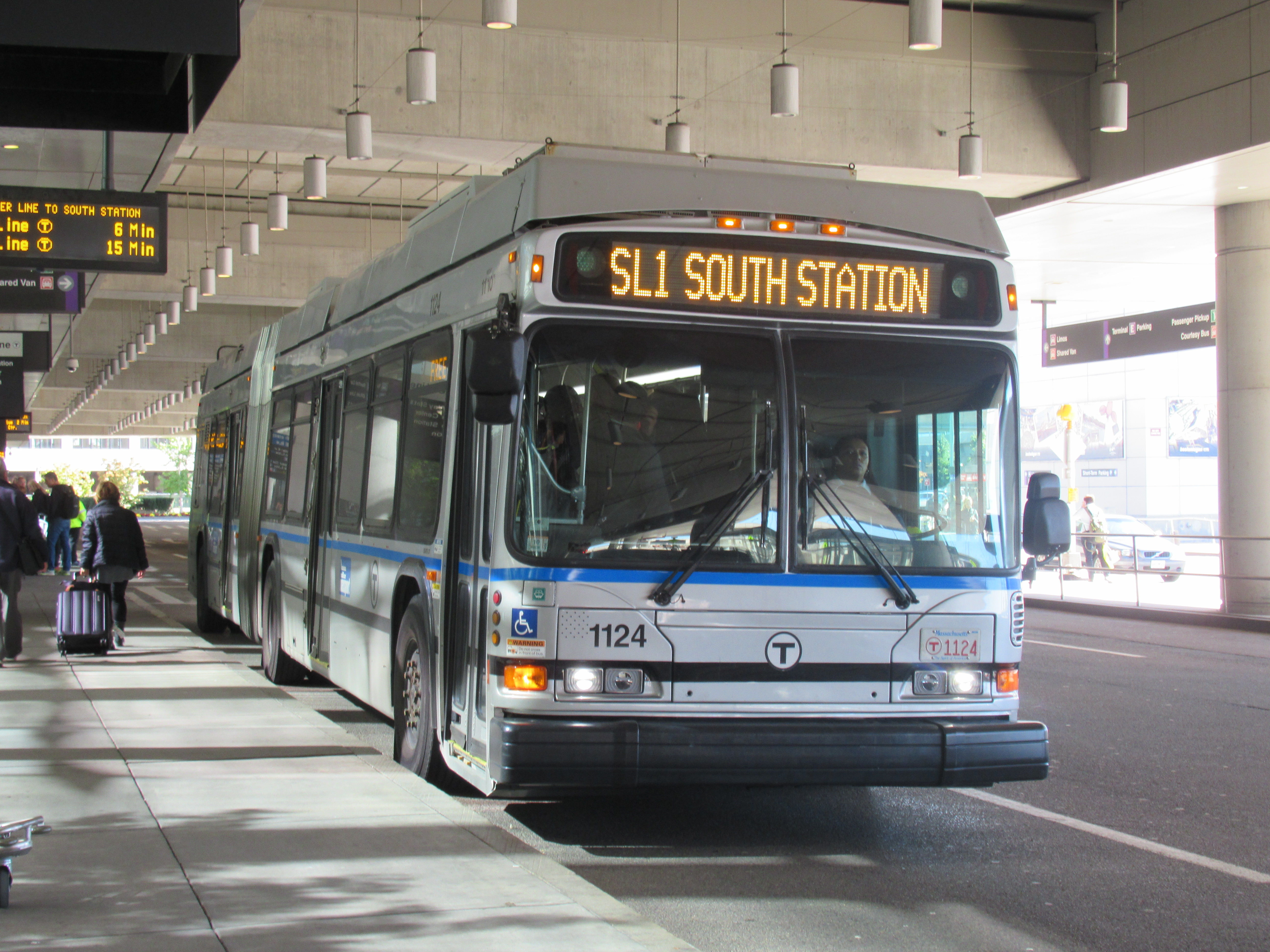 MBTA #1124 on the SL1 at Logan Airport Terminal E